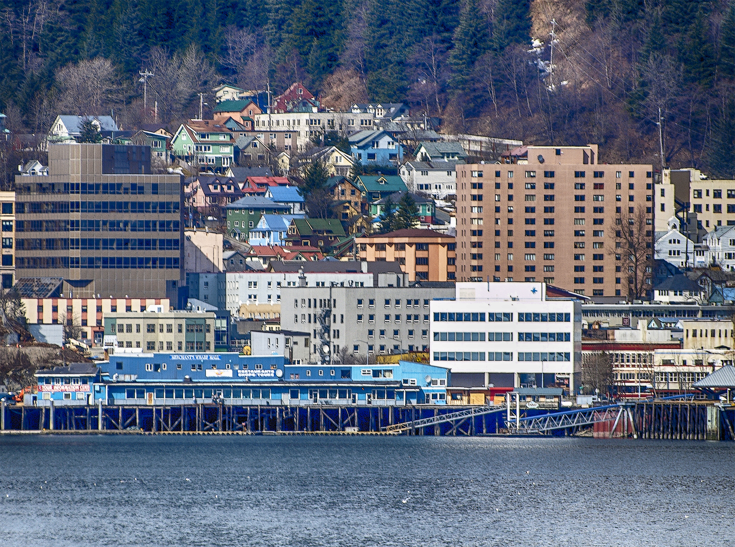 City of Juneau, Waterfront View from Douglas Island